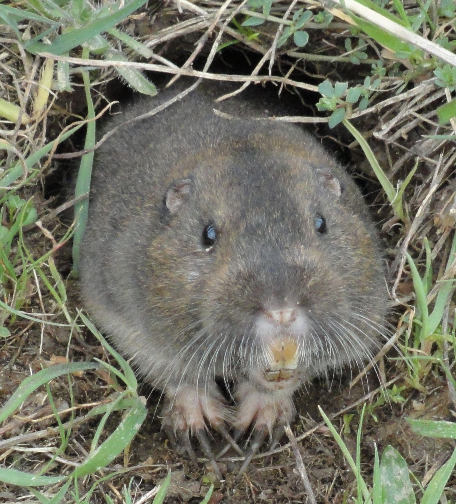 Pocket Gopher photographed at Ano Nuevo State Park in California, USA. The species is Thomomys bottae, the only pocket gopher in that part of California. The ungrooved upper incisors are characteristic of Thomomys.